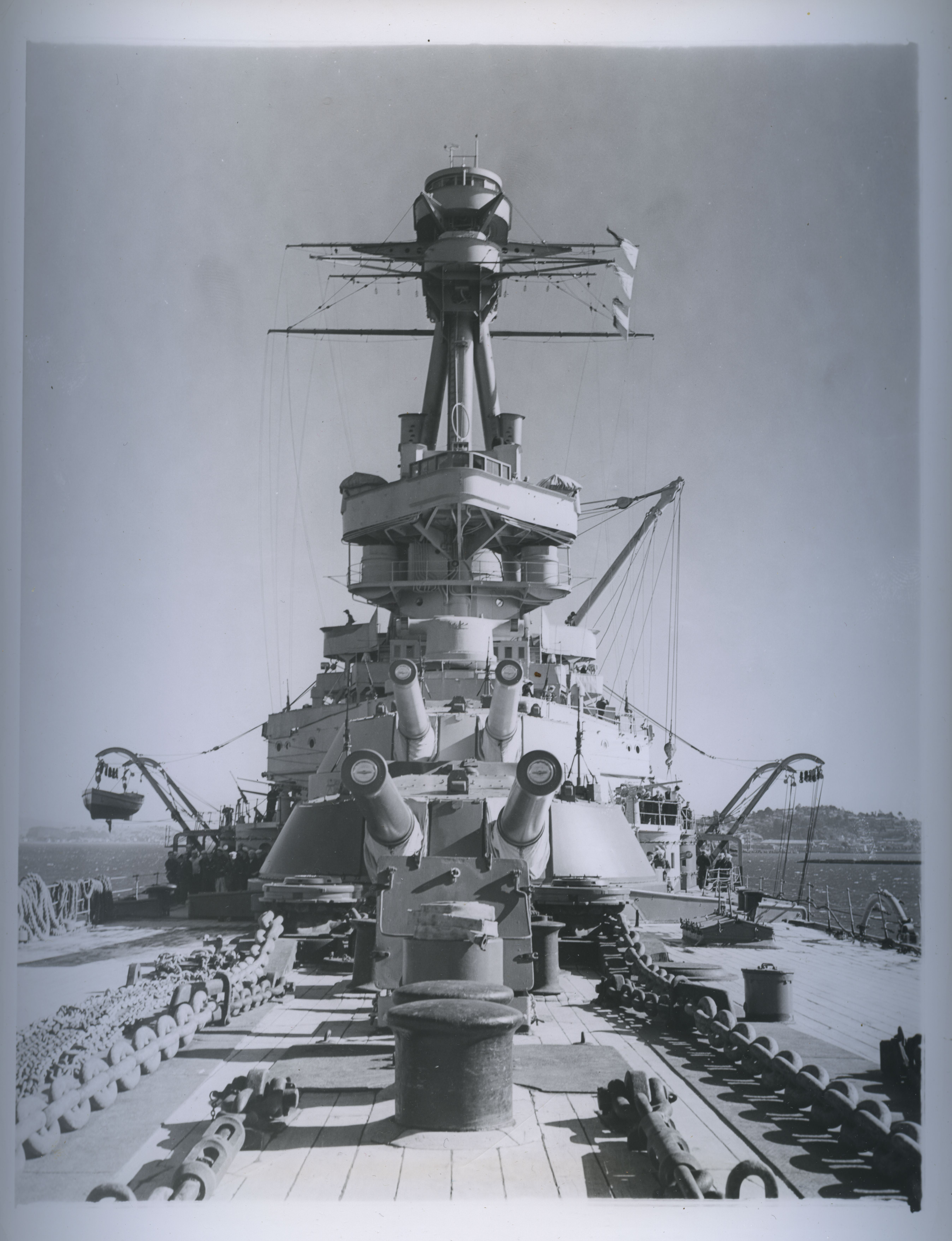 A view on board the Chilean battleship Latorre.